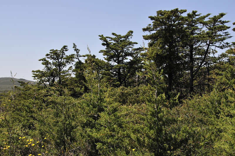 Cupressus sargentii syn. Callitropsis sargentii — Sargent's cypress. At Cuesta Ridge Botanical Special Interest Area, in the Los Padres National Forest. On the southern crest of Santa Lucia Mountains, San Luis Obispo County, central California. US Forest Service photo, no copyright.